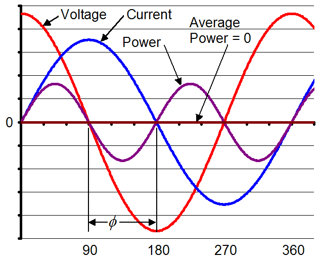 Instantaneous and average power calculated from AC voltage and current with a unity power factor. by C J Cowie using MS Excel, MicroGrafx Designer and Adobe Photoshop Elements